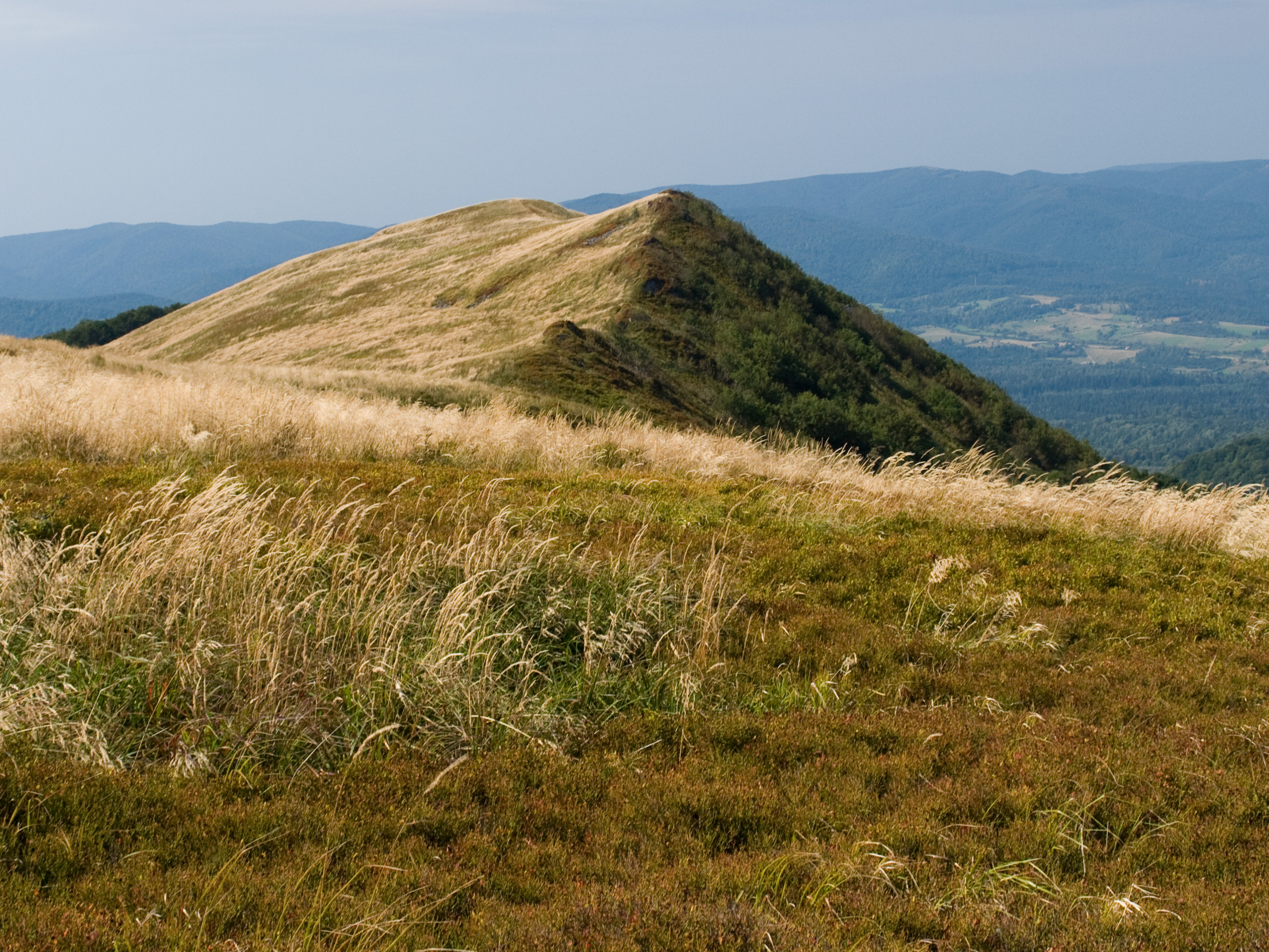 Hnatowe Berdo, view from the red trail below Osadzki Wierch.